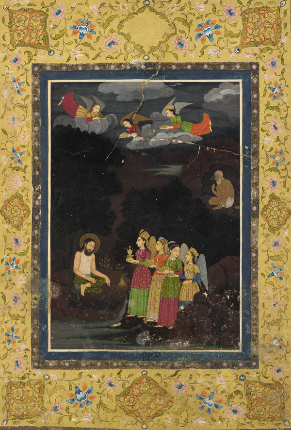 Sufis Mystics and Attendants Ibrahim b. Adham, Mughal, 17th c.